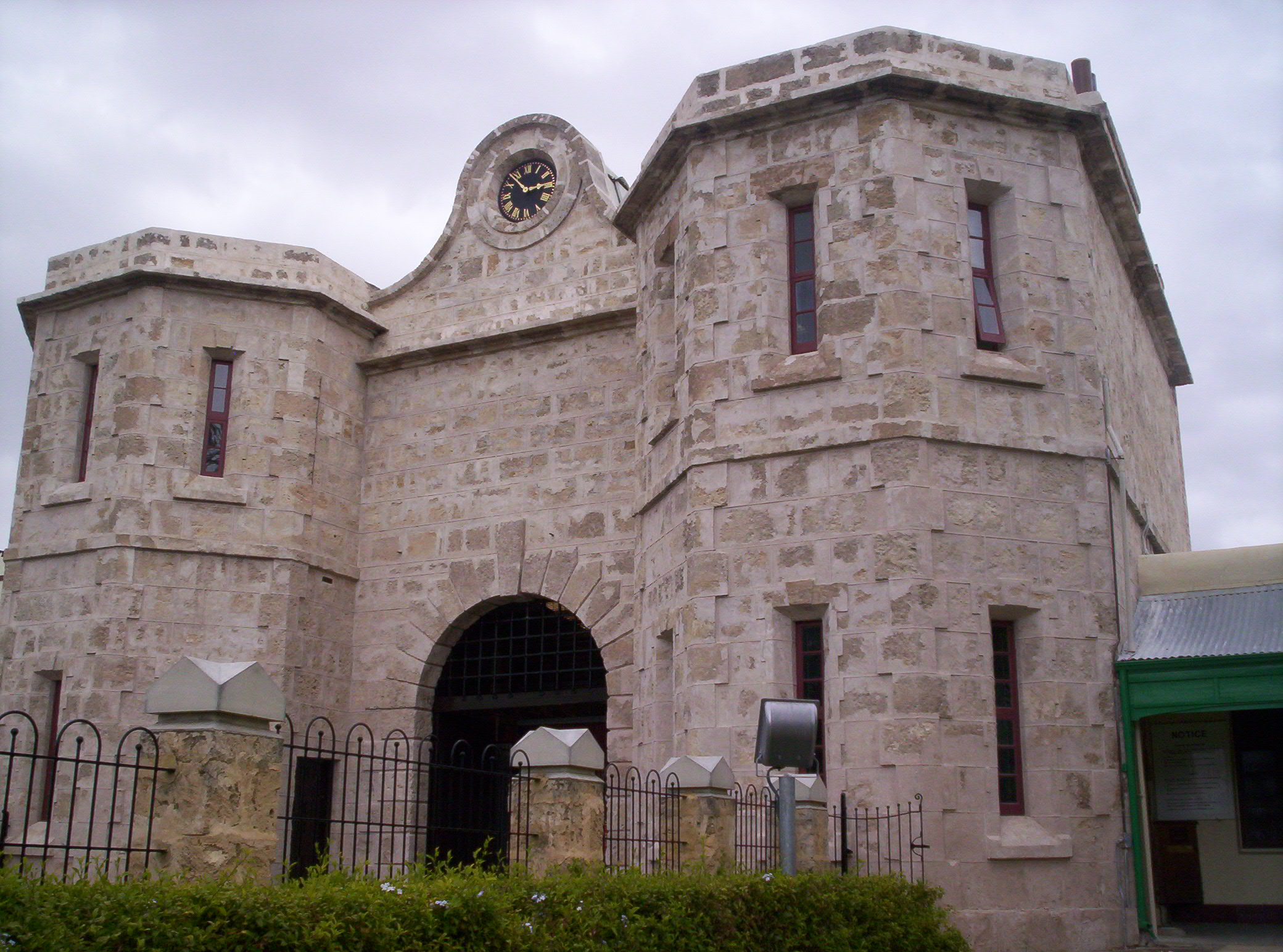 View of the newly restored Femantle prison gatehouse taken by Ghostieguide 22 December 2005, Metadata incorrect date set wrong